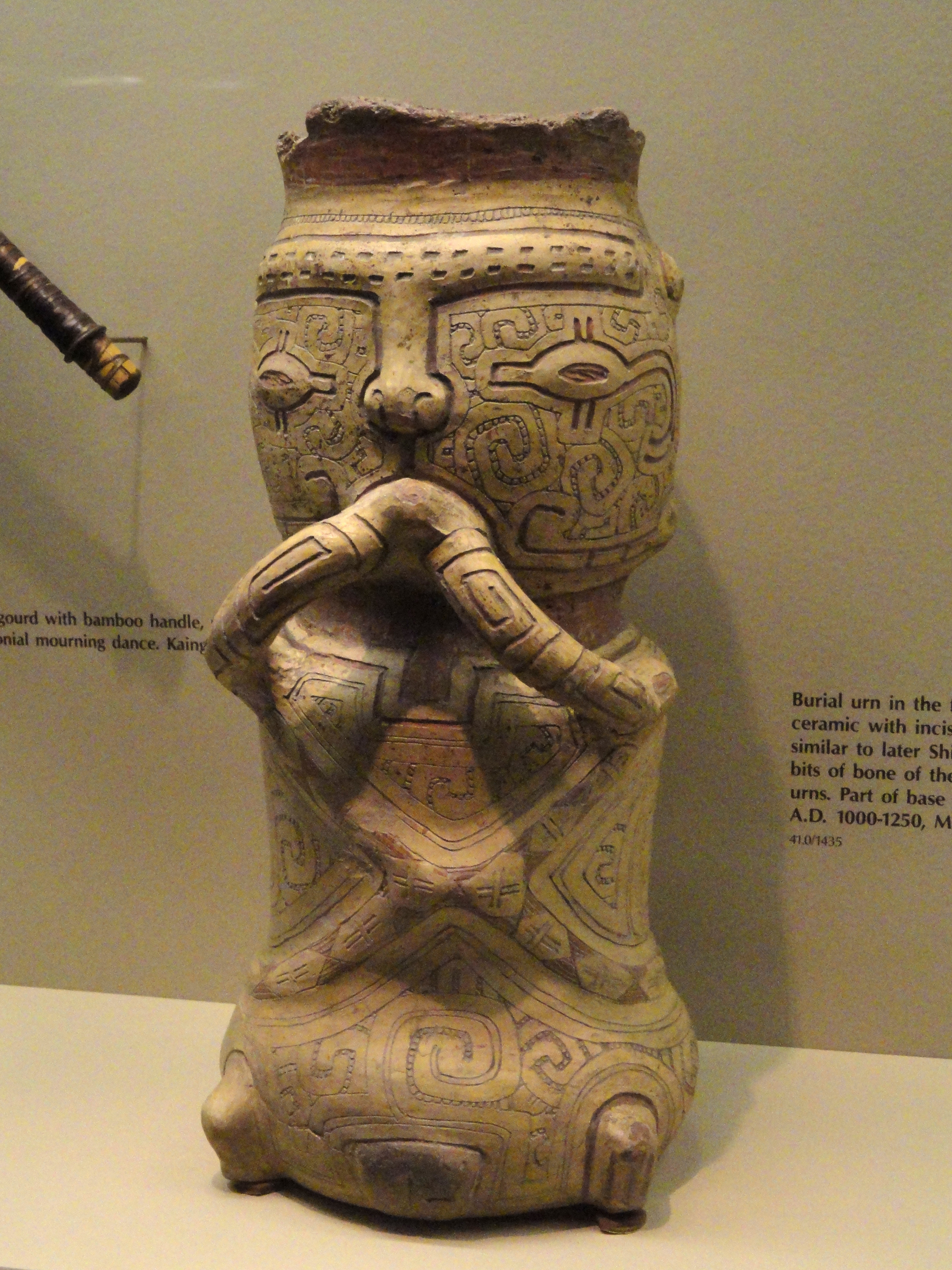 Exhibit in the South American collection of the American Museum of Natural History, Manhattan, New York City, New York, USA.